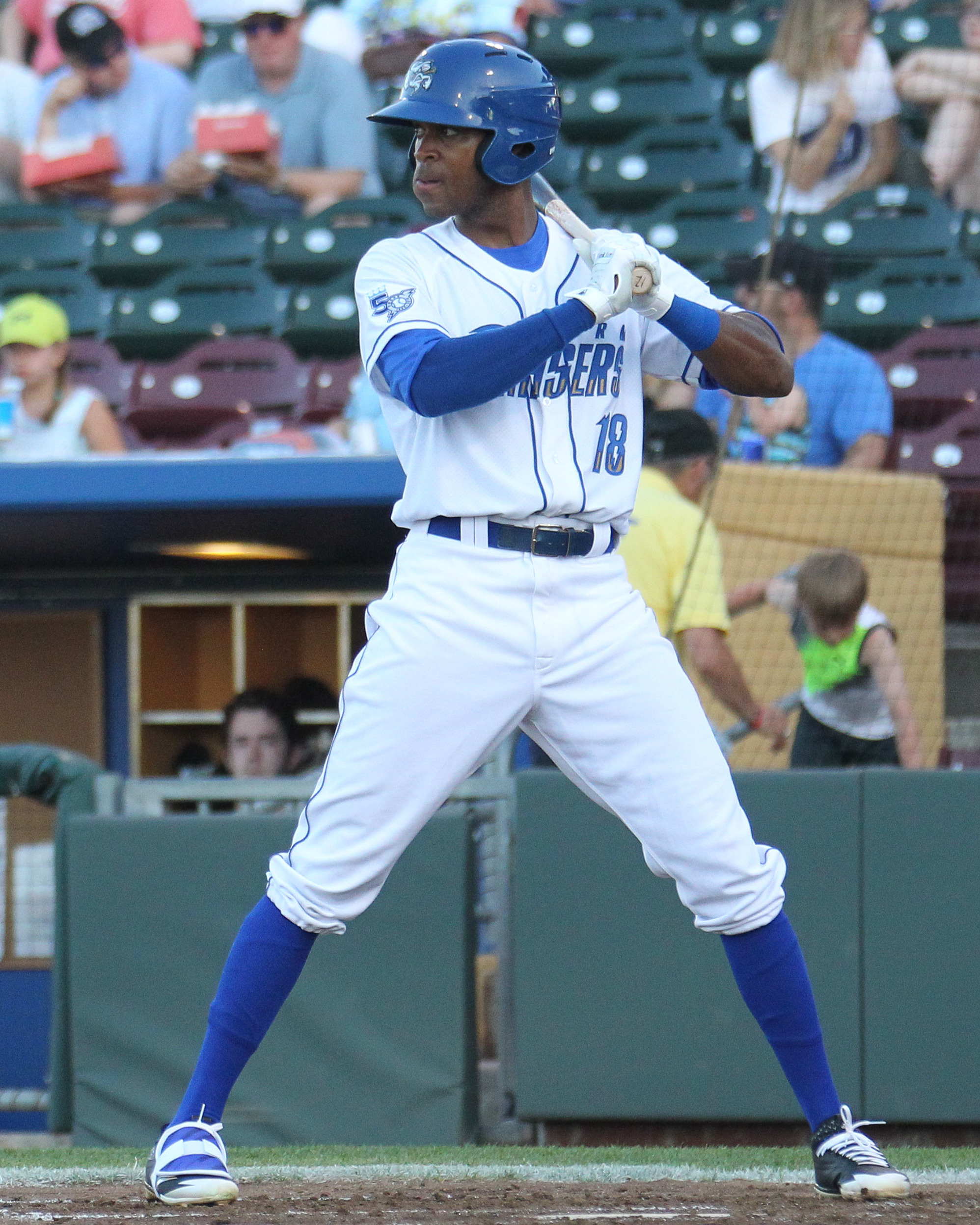 Rosell Herrera with the Omaha Storm Chasers at Werner Park in Omaha in 2018.